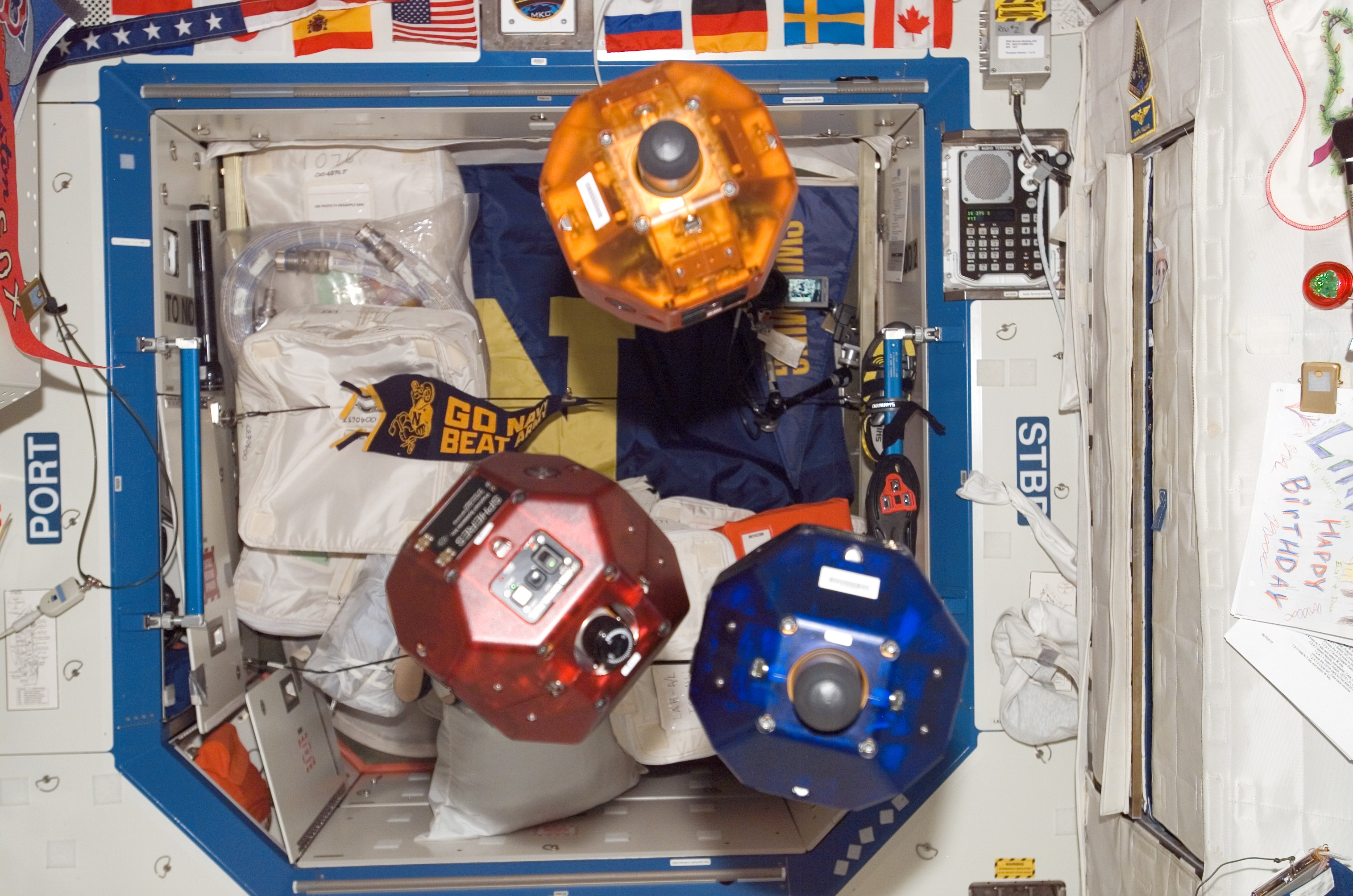 Medium close-up view of the three bowling-ball-sized free-flying satellites called Synchronized Position Hold, Engage, Reorient, Experimental Satellites (SPHERES) in the Destiny laboratory of the International Space Station.